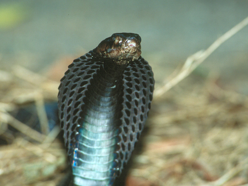 Equatorial spitting cobra (N. sumatrana).